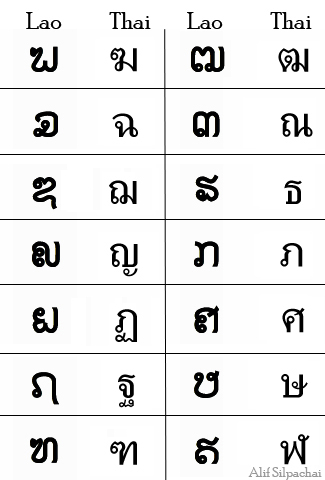 Comparison between Thai and Lao indic letters.